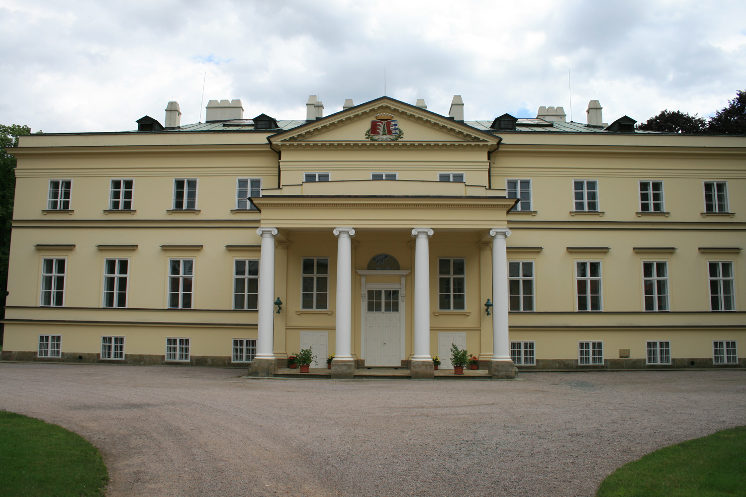 Kostelec nad Orlicí castle, east Bohemia, Czech Republic